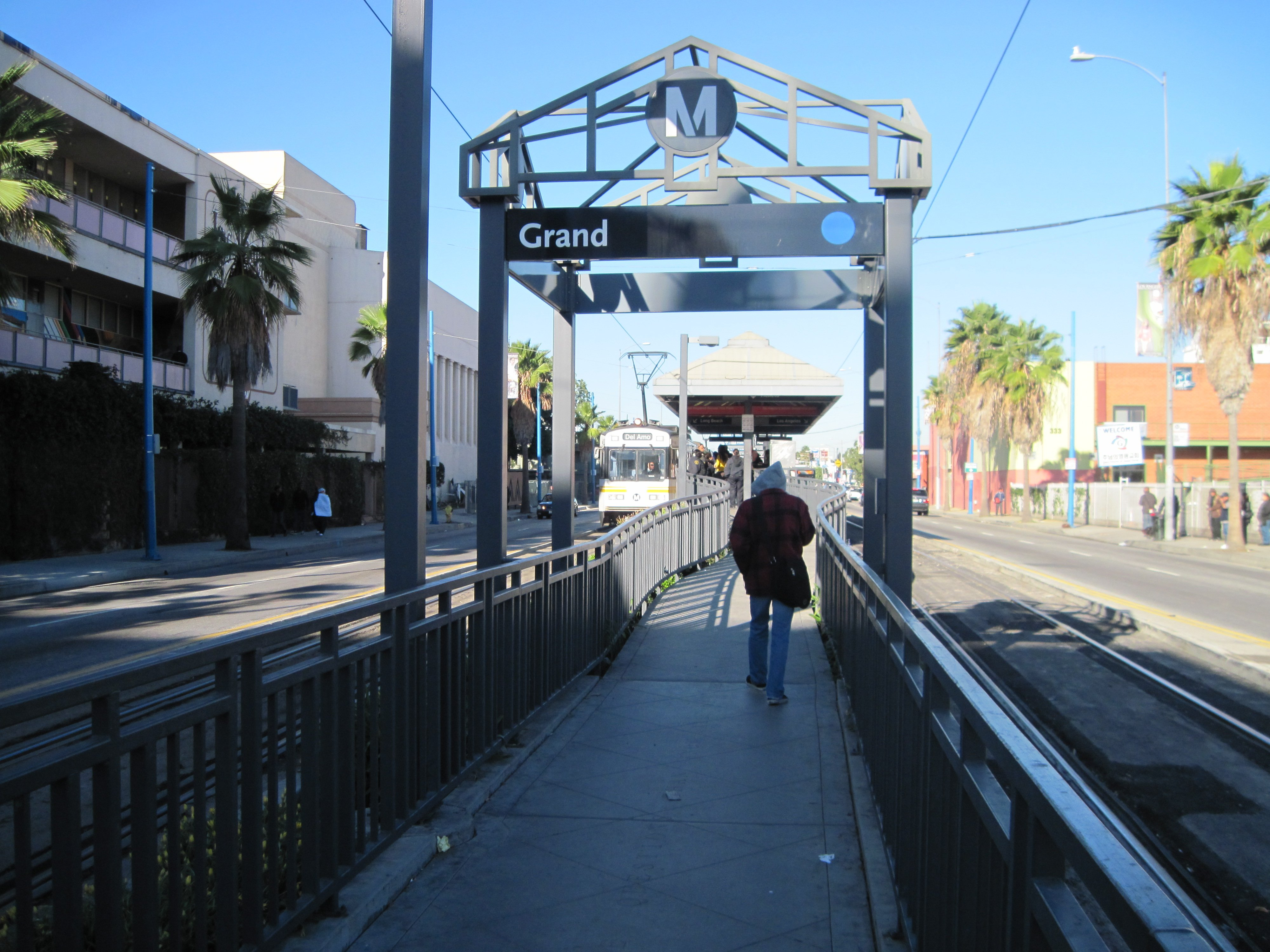 Looking west toward the platform at the Los Angeles County Metropolitan Transportation Authority's Grand station, serving the Metro Blue Line in Los Angeles, California, USA.